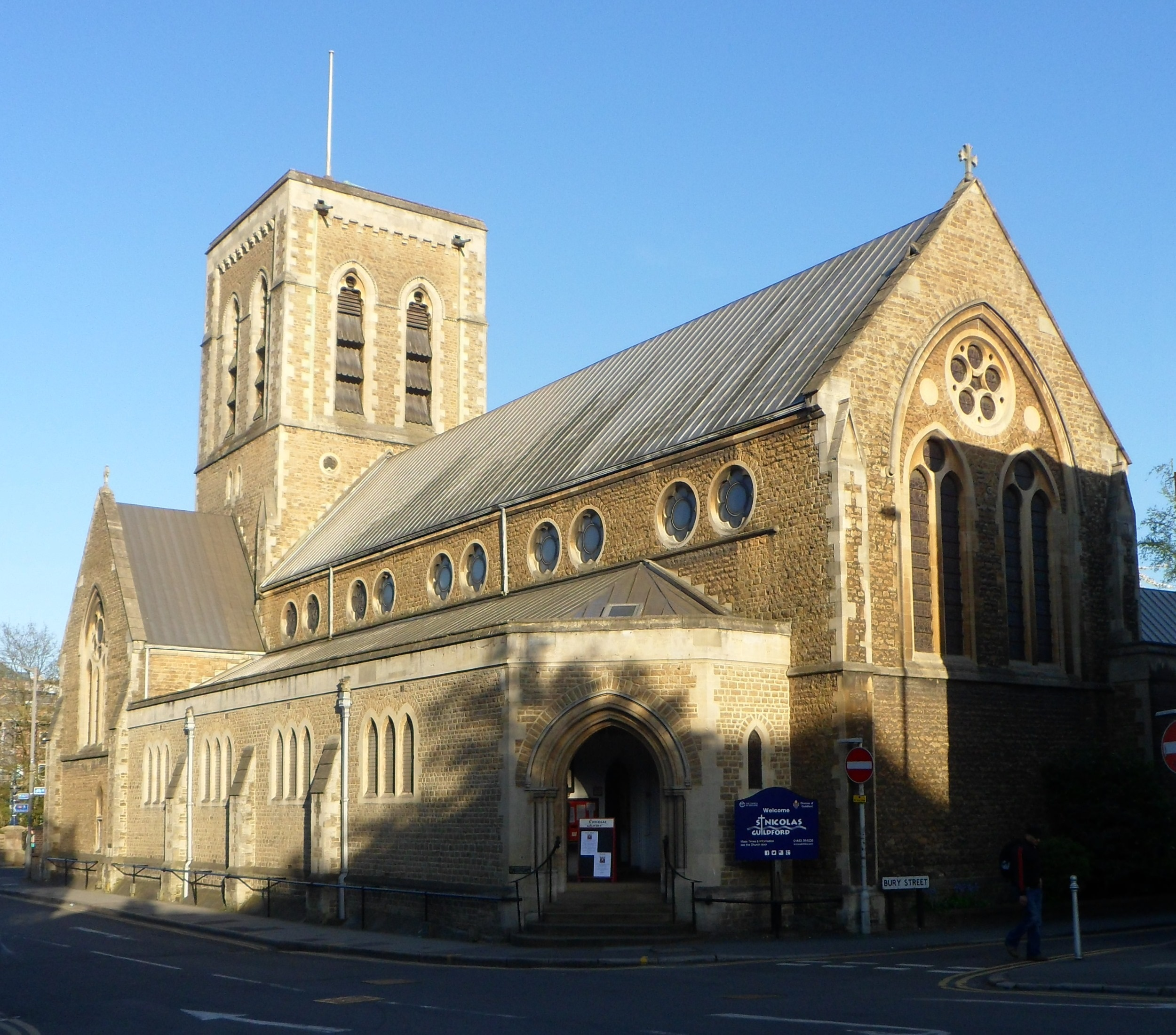 St Nicholas' Church, Bury Street, Guildford, Borough of Guildford, Surrey, England.